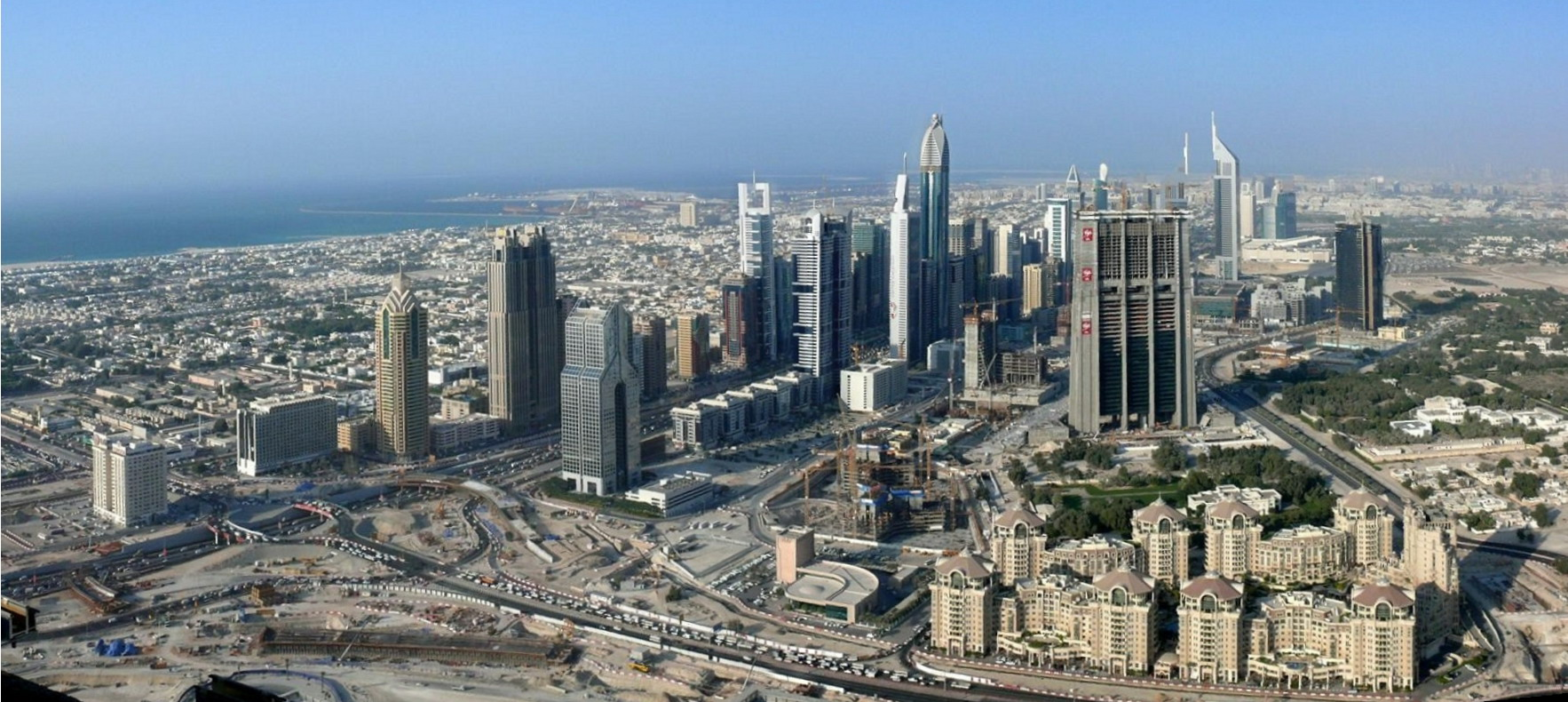 This is a photo showing the skyline along Sheikh Zayed Road in Dubai, United Arab Emirates on 27 November 2007. This photo was taken from the 76th floor of the Burj Dubai.